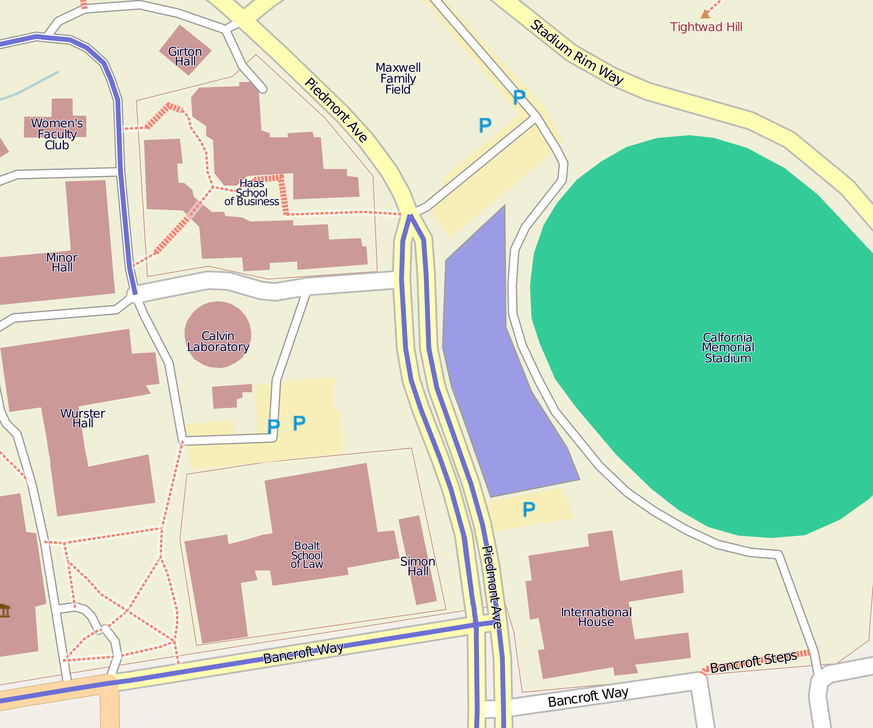 Map illustrating the location of memorial stadium and oak grove. The location of the grove is marked in light blue.